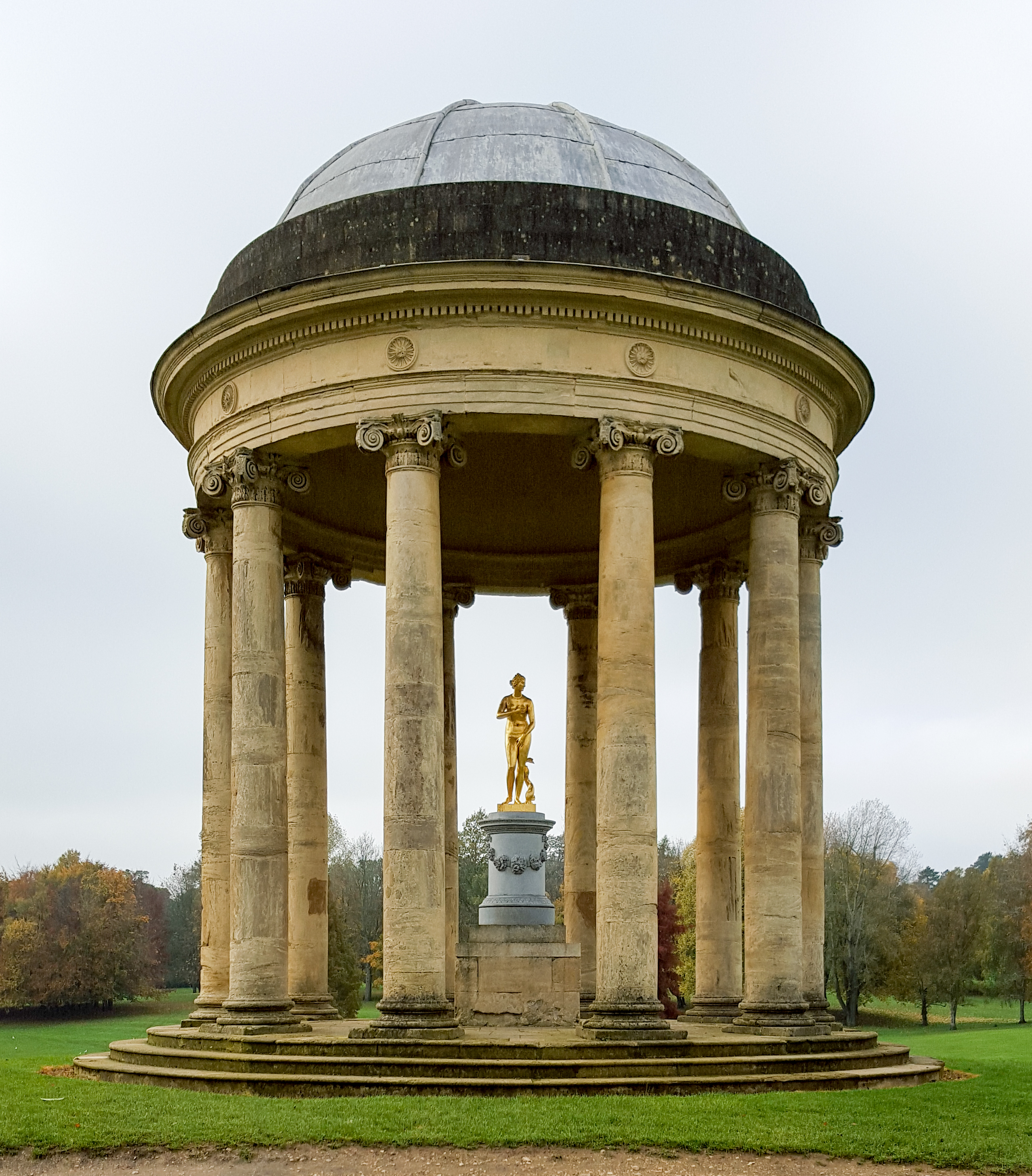 The 18th century Rotunda in Stowe Gardens. A Grade I listed building.